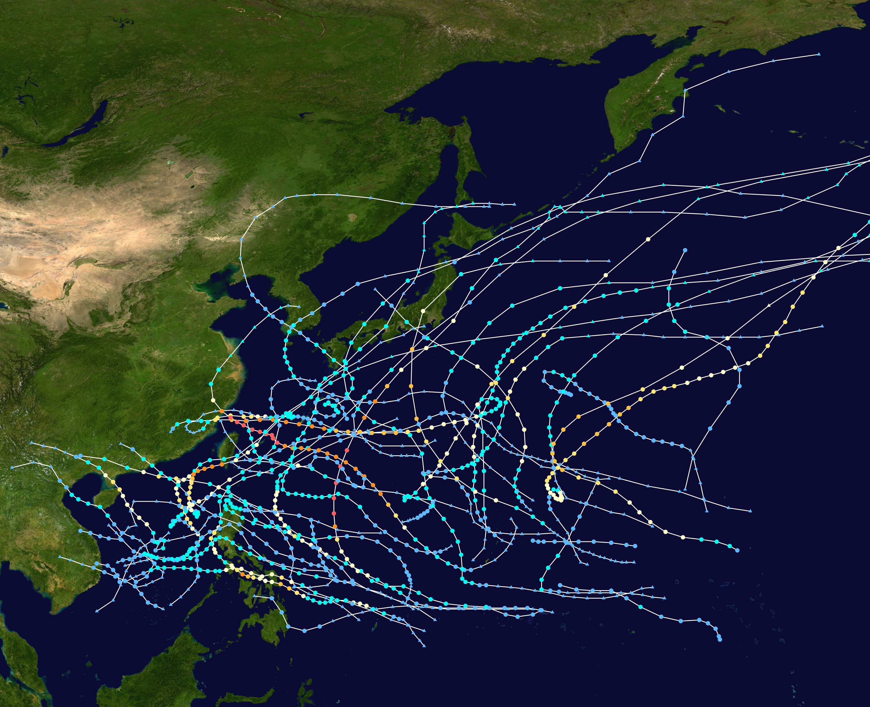 This map shows the tracks of all tropical cyclones in the 1966 Pacific typhoon season. The points show the location of each storm at 6-hour intervals. The colour represents the storm's maximum sustained wind speeds as classified in the Saffir-Simpson Hurricane Scale (see below), and the shape of the data points represent the nature of the storm. Saffir–Simpson hurricane wind scale Tropical depression≤38 mph≤62 km/h Category 3111–129 mph178–208 km/h Tropical storm39–73 mph63–118 km/h Category 4130–156 mph209–251 km/h Category 174–95 mph119–153 km/h Category 5≥157 mph≥252 km/h Category 296–110 mph154–177 km/h Unknown Storm typeTropical cycloneSubtropical cycloneExtratropical cyclone / Remnant low / Tropical disturbance